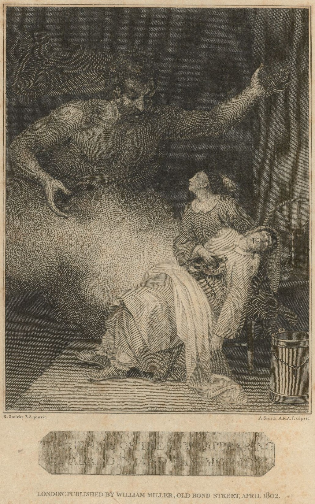 Illustration, "The genius of the lamp appears to Aladdin and his mother", from The Arabian Nights (London: W. Miller / W. Bulmer and Co., 1802), translated by the Reverend Edward Forster. Based on a painting by Robert Smirke, engraving by A. Smith. Lowell 4211.30, Houghton Library, Harvard University